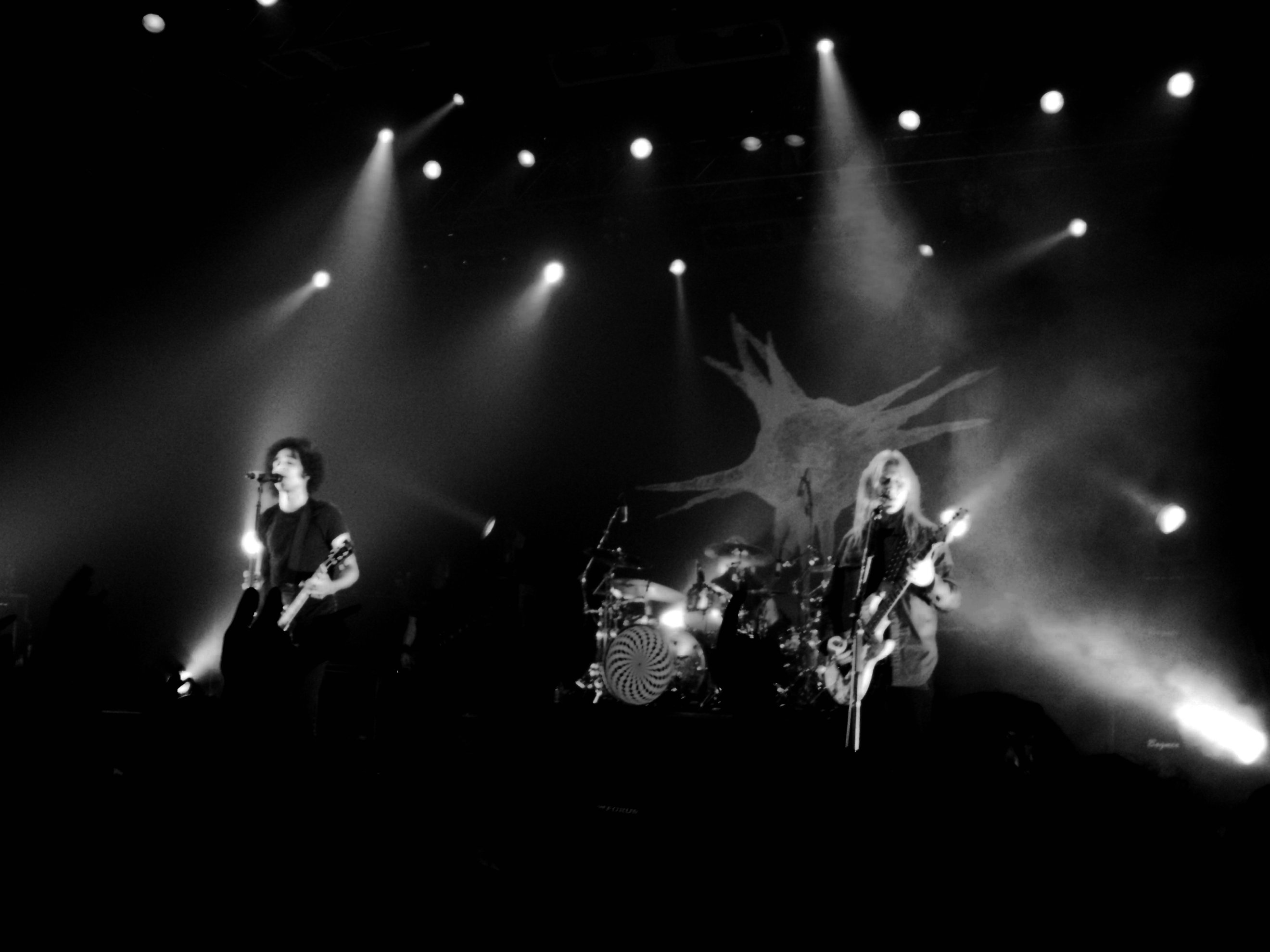 Alice in Chains live at The Forum, London, 2009